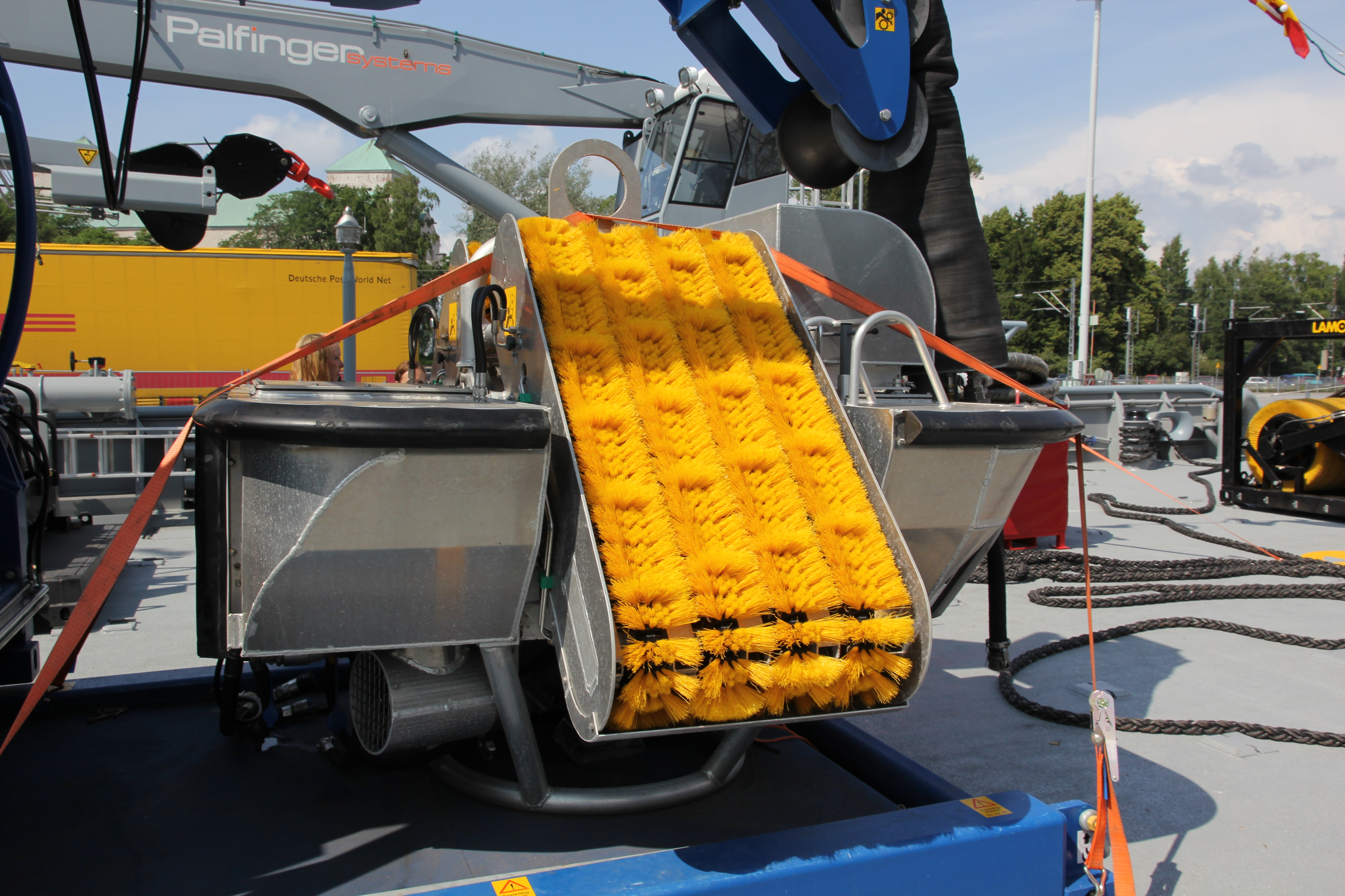 Free-floating skimmer for high viscosity oils (Lamor LFF 100) onboard the Finnish multipurpose pollution control vessel Louhi. Photographed during Finnish Navy 2011 anniversary in Turku.